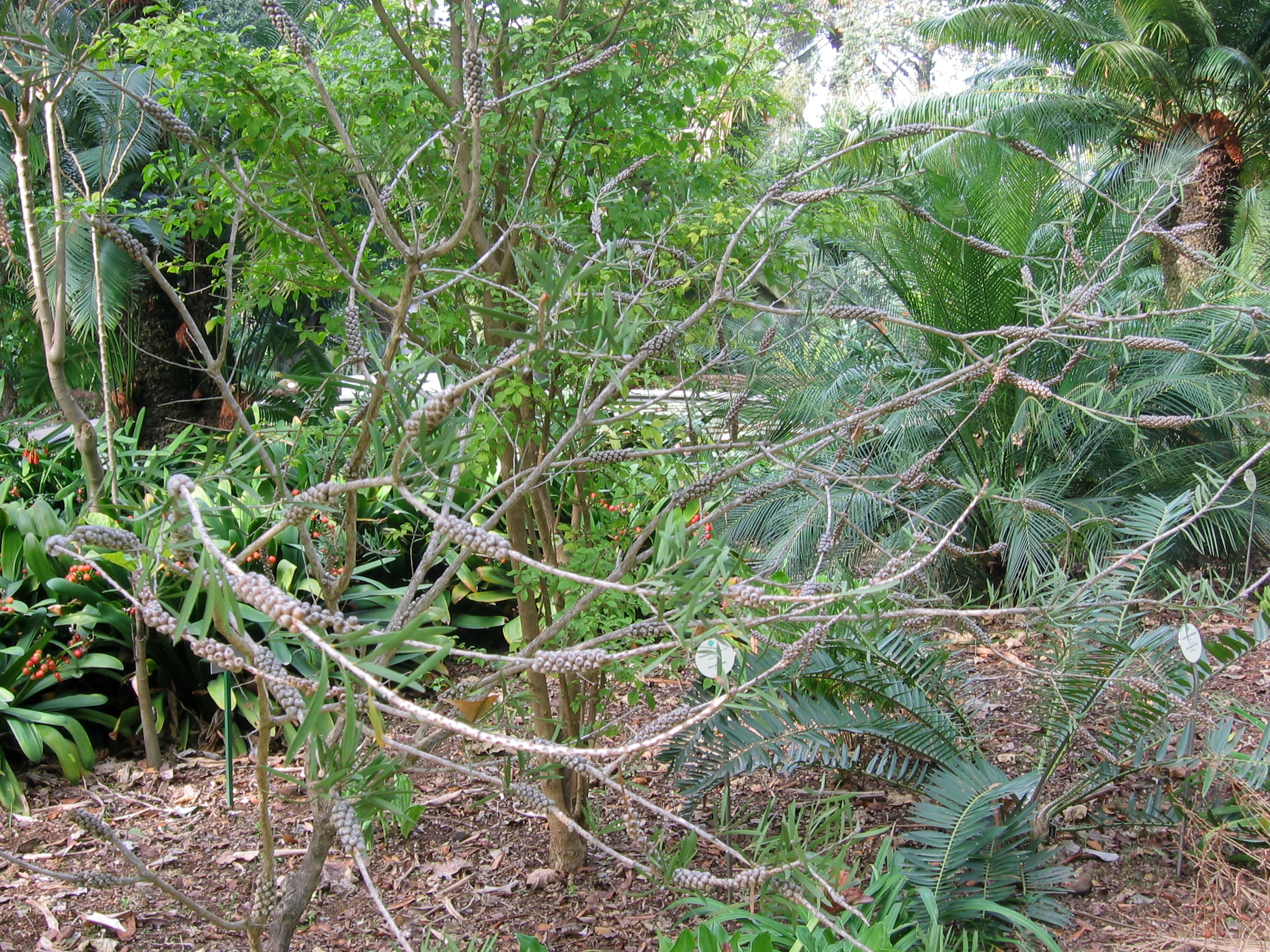 Scarlet Bottlebrush (Callistemon macropunctatus)